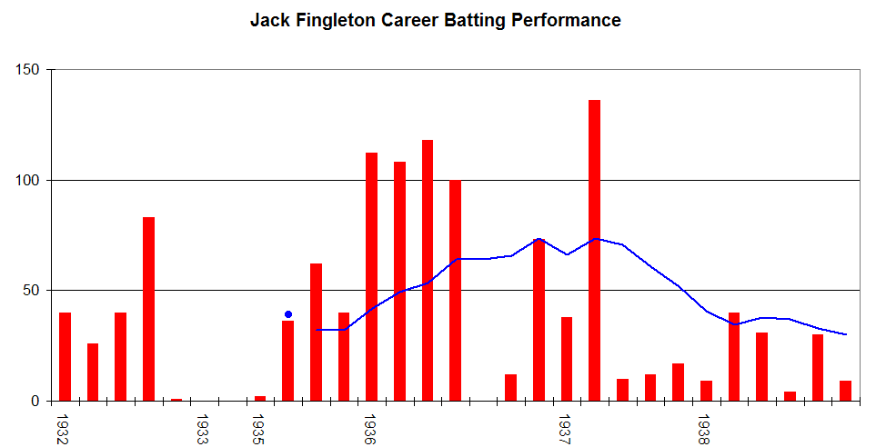 This graph details the Test Match performance of Jack Fingleton. It was created by Raven4x4x. The red bars indicate the player's test match innings, while the blue line shows the average of the ten most recent innings at that point. Note that this average cannot be calculated for the first nine innings. The blue dots indicate innings in which Fingleton finished not-out. This graph was generated with Microsoft Excel 2002, using data from Cricinfo and .au.